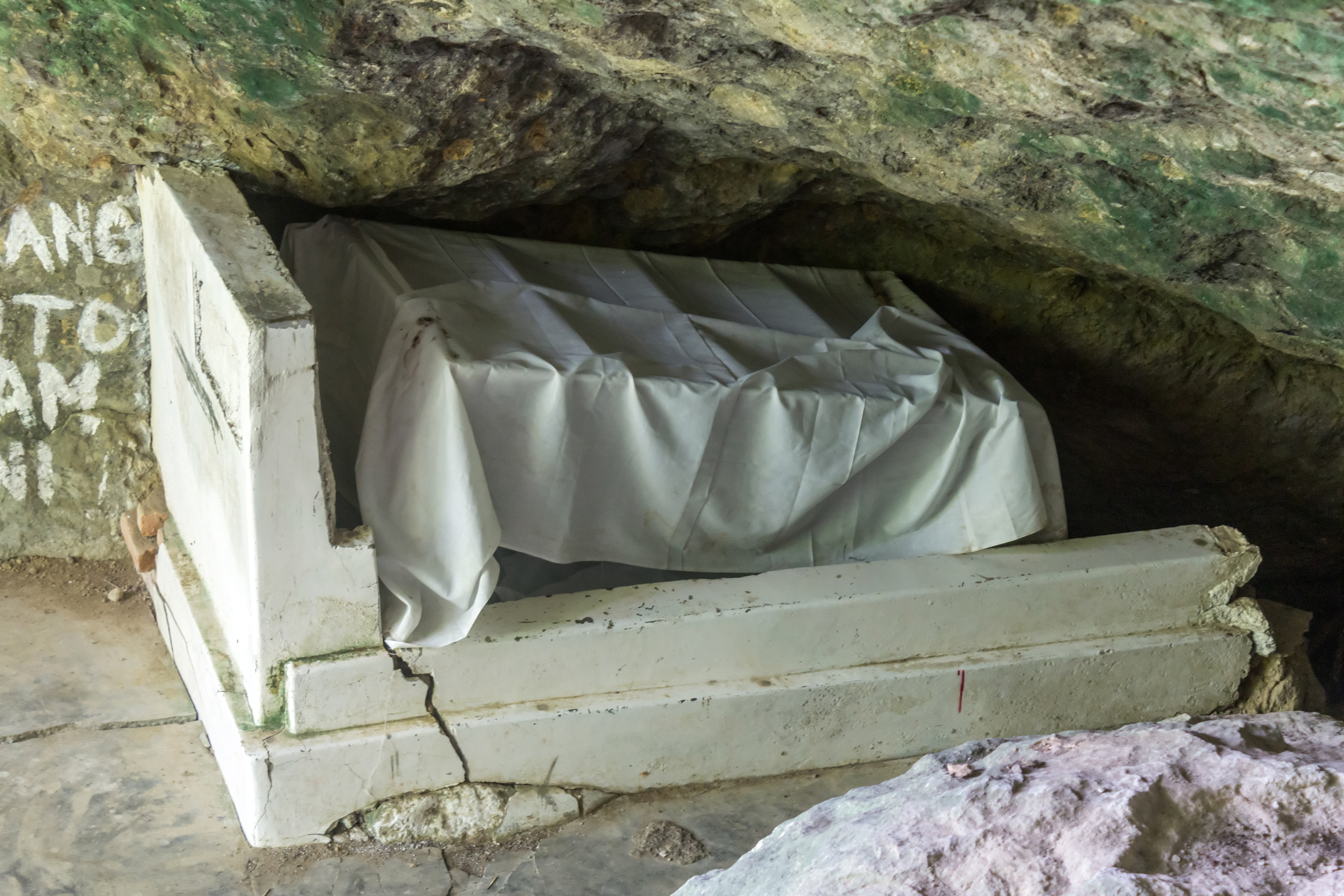 Grave of Sitti Nurbaya, Gunung Padang, Padang, 2017-02-14